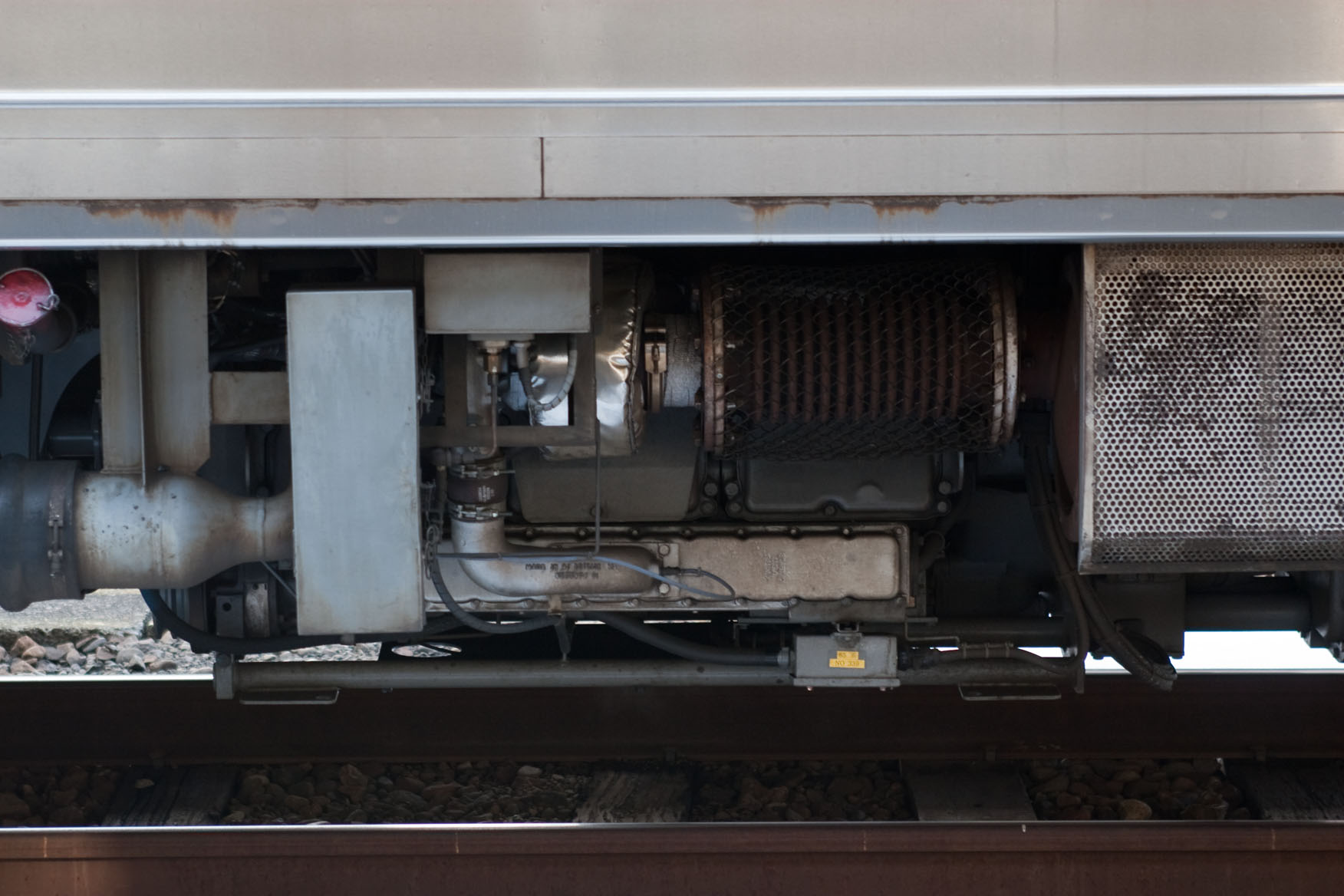 A Cummins C-DMF14HZ diesel engine, installed in a JR Central Kiha 84 DMU.